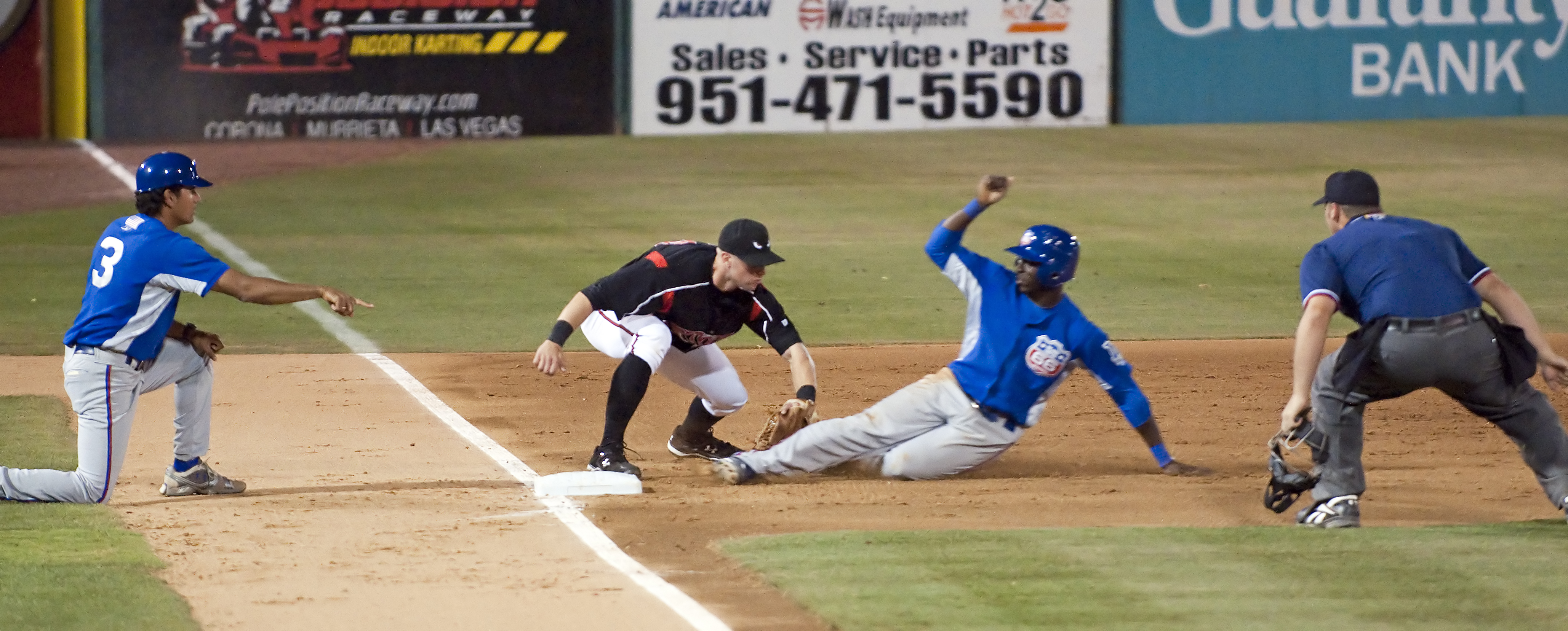 James Darnell tags out a runner attempting to advance to third base.